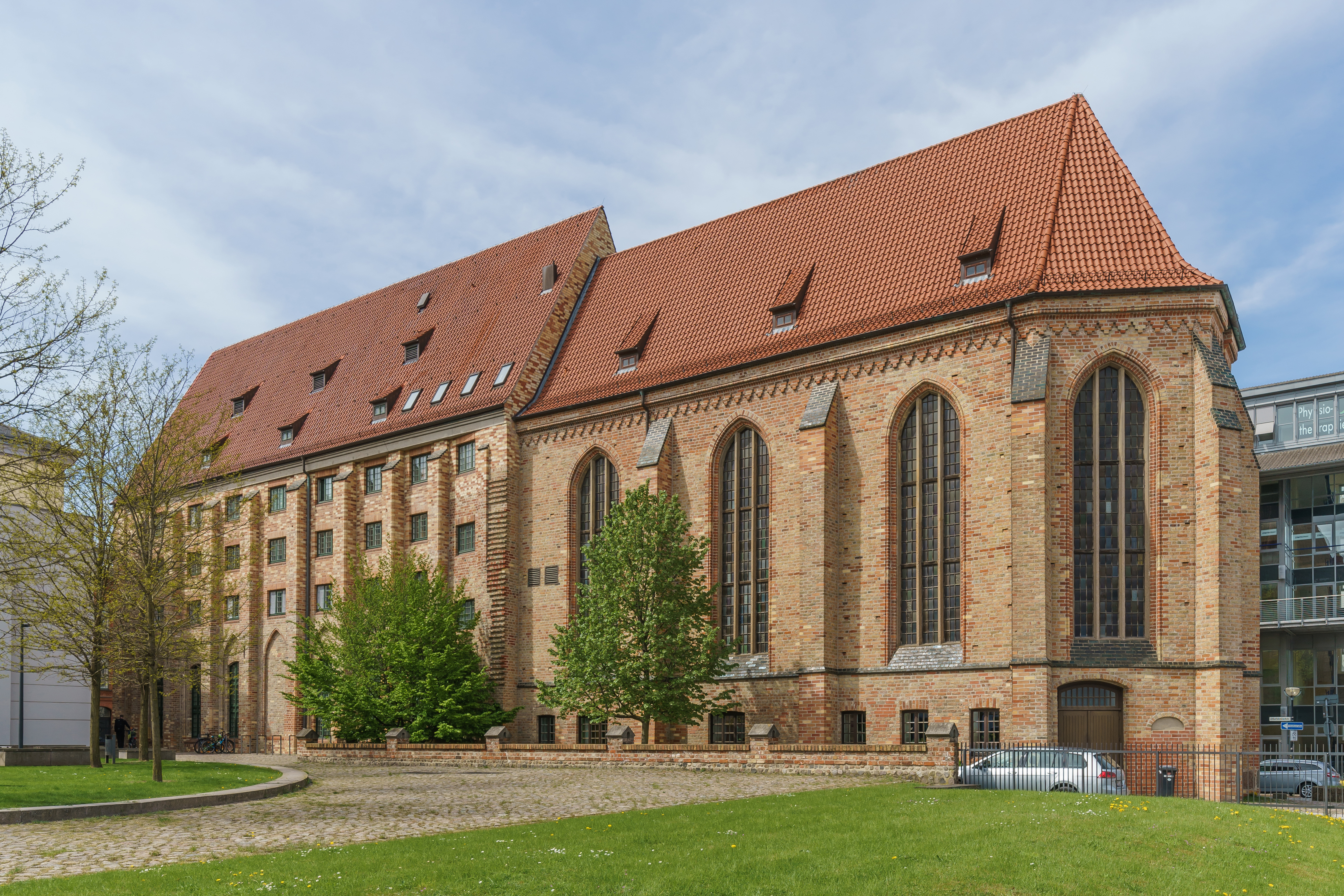 Former abbey in Rostock, Germany